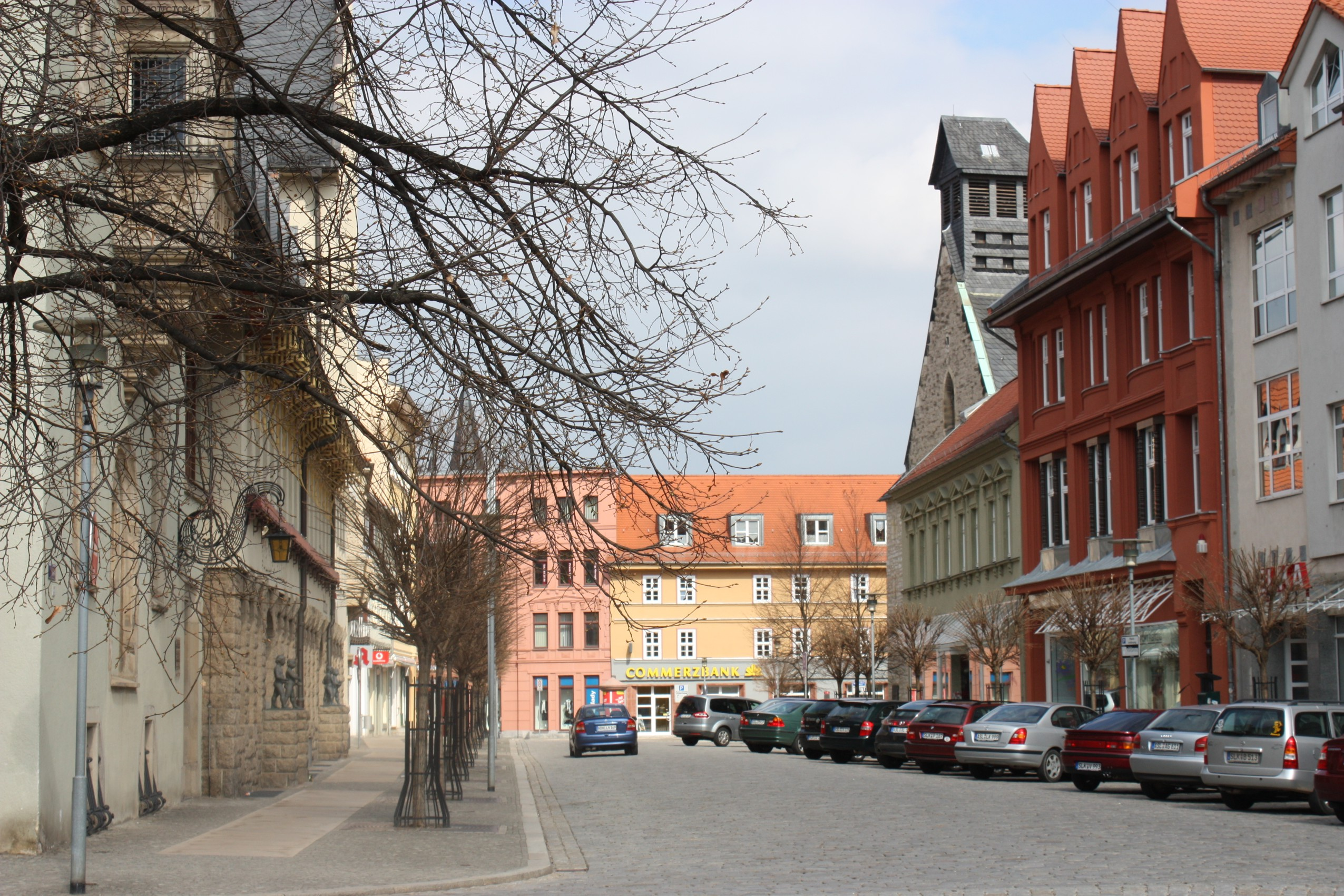 Aschersleben, der Markt